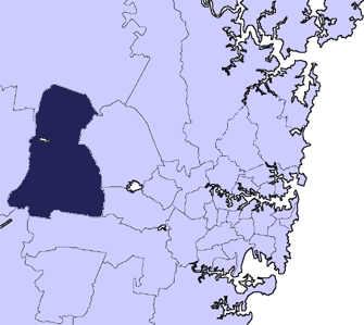 Locator Map Penrith lga sydney.png Based on Image:Ku-ring-gai sydney.png by User:Randwicked.